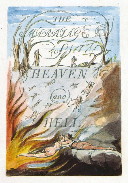 The Marriage of Heaven and Hell copy D 1795 Library of Congress object 1